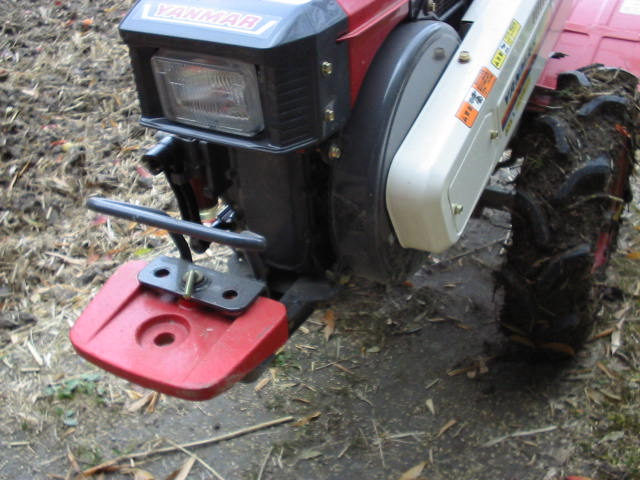 A part of front weights of a Yanmar rotary tiller for agriculture.